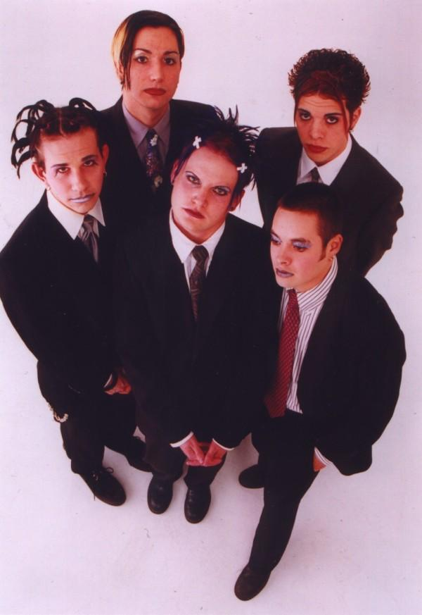 Group shot of Victims in Ecstacy